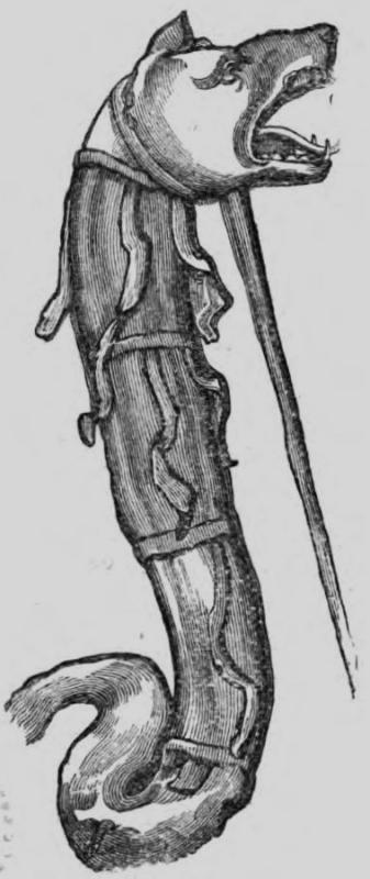 One of the Dacians wolf-like head Draco standards depicted on the Trajan Column Rome